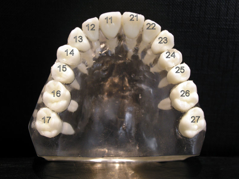 Teeth, ISO notations (FDI), upper jaw